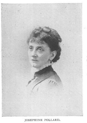 Photograph of Josephine Pollard facing left